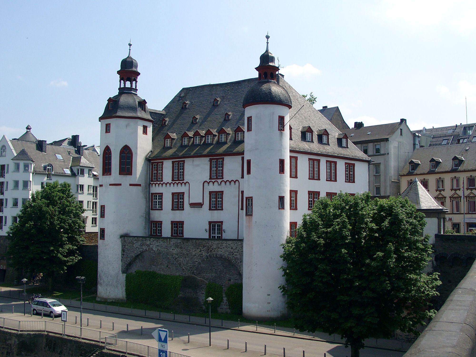 Alte Burg in Koblenz, City Archives